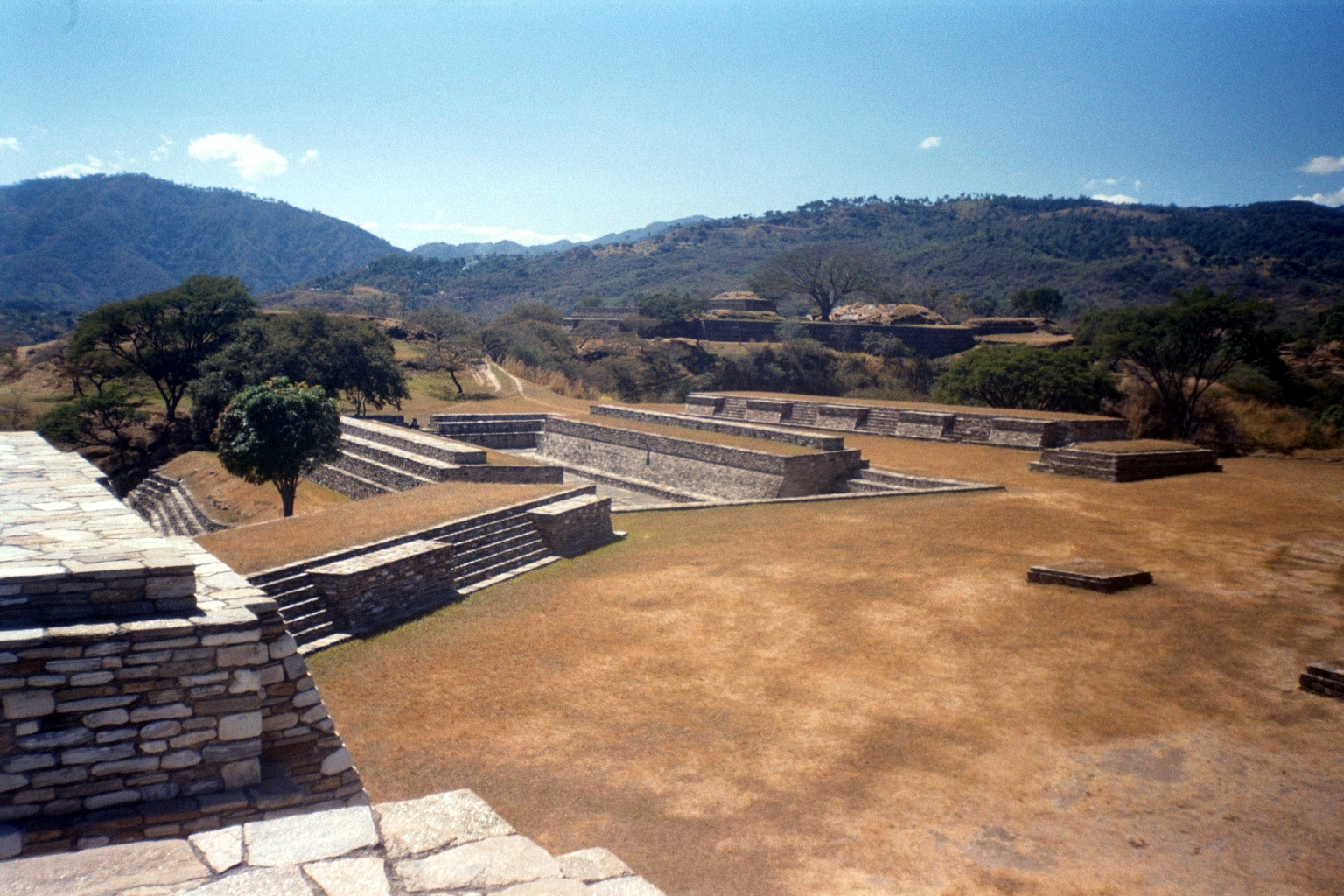 View of Mixco Viejo. Ballcourt B1 from double pyramid complex B3, with Group C in the background.